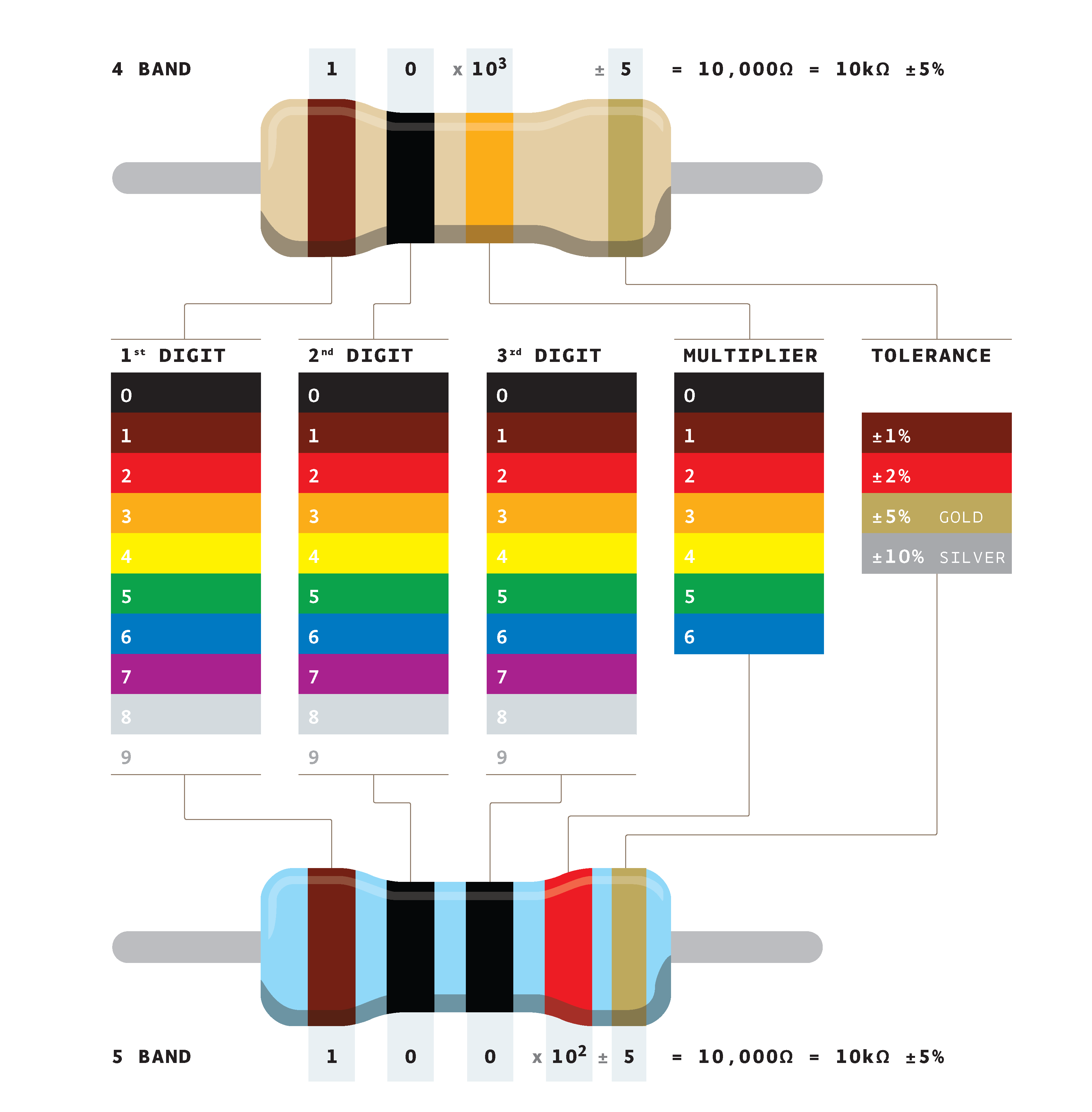 Resistor color code chart